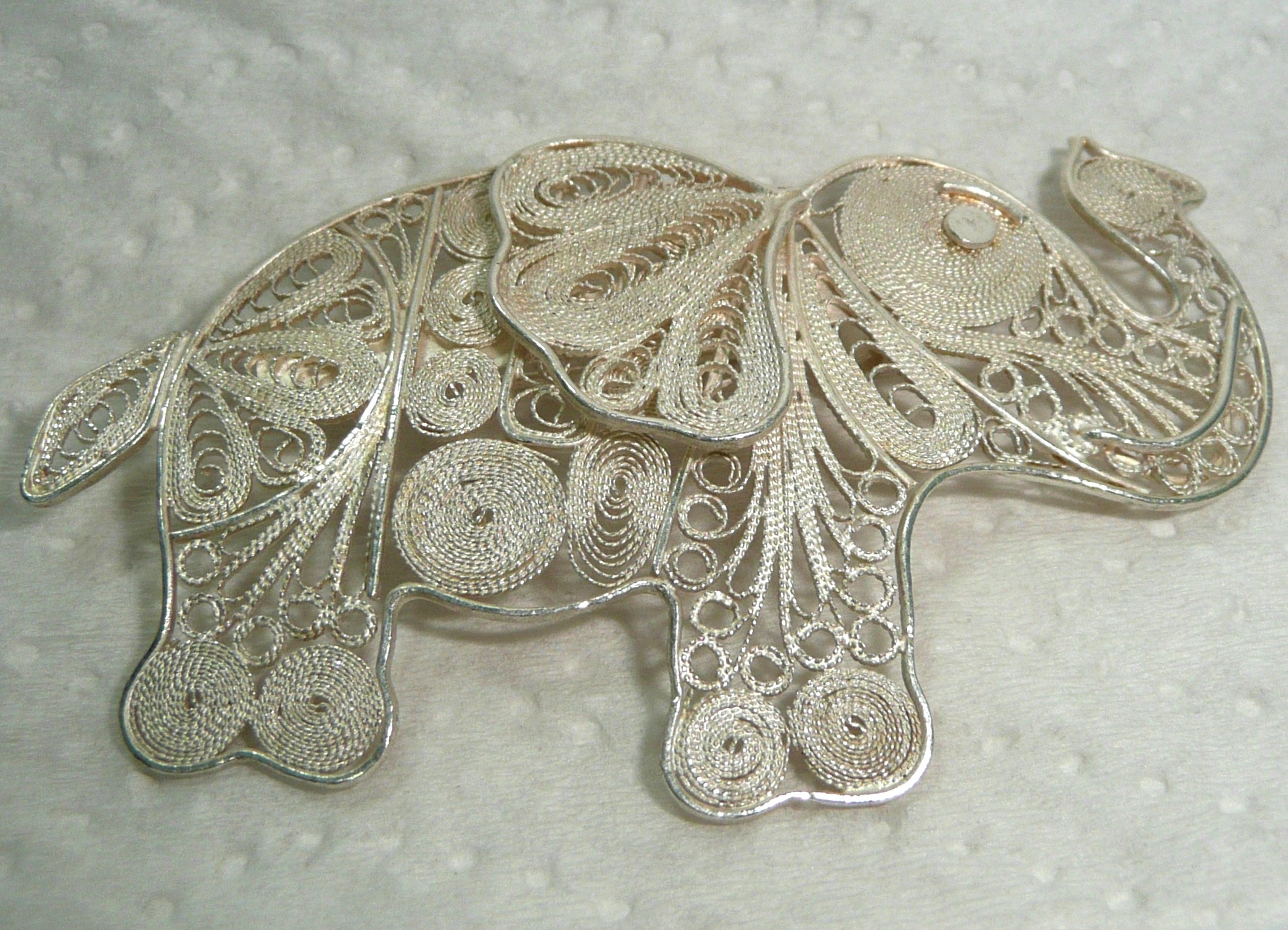 Silver jewelry from Midyat - Turkey.